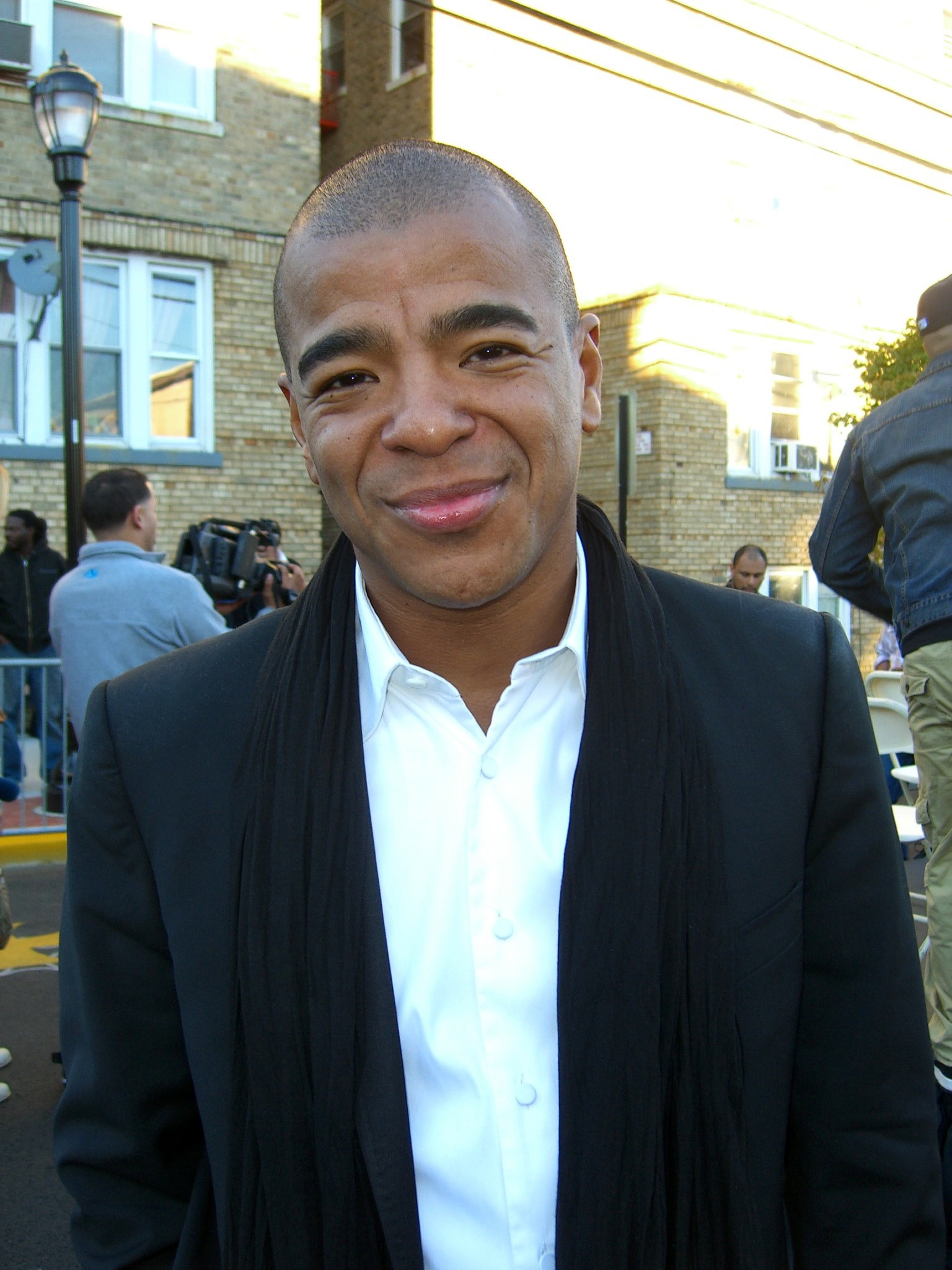 DJ and music producer Erick Morillo at an October 12, 2012 ceremony in his home town of Union City, New Jersey, where the city renamed the portion of Bergenline Avenue between 14th Street and 15th Street "Erick Morillo Way" in honor of Morillo, who lived in the apartment building at 1406 Bergenline Avenue in his youth. This photo was created by Luigi Novi. It is not in the public domain, and use of this file outside of the licensing terms is a copyright violation.